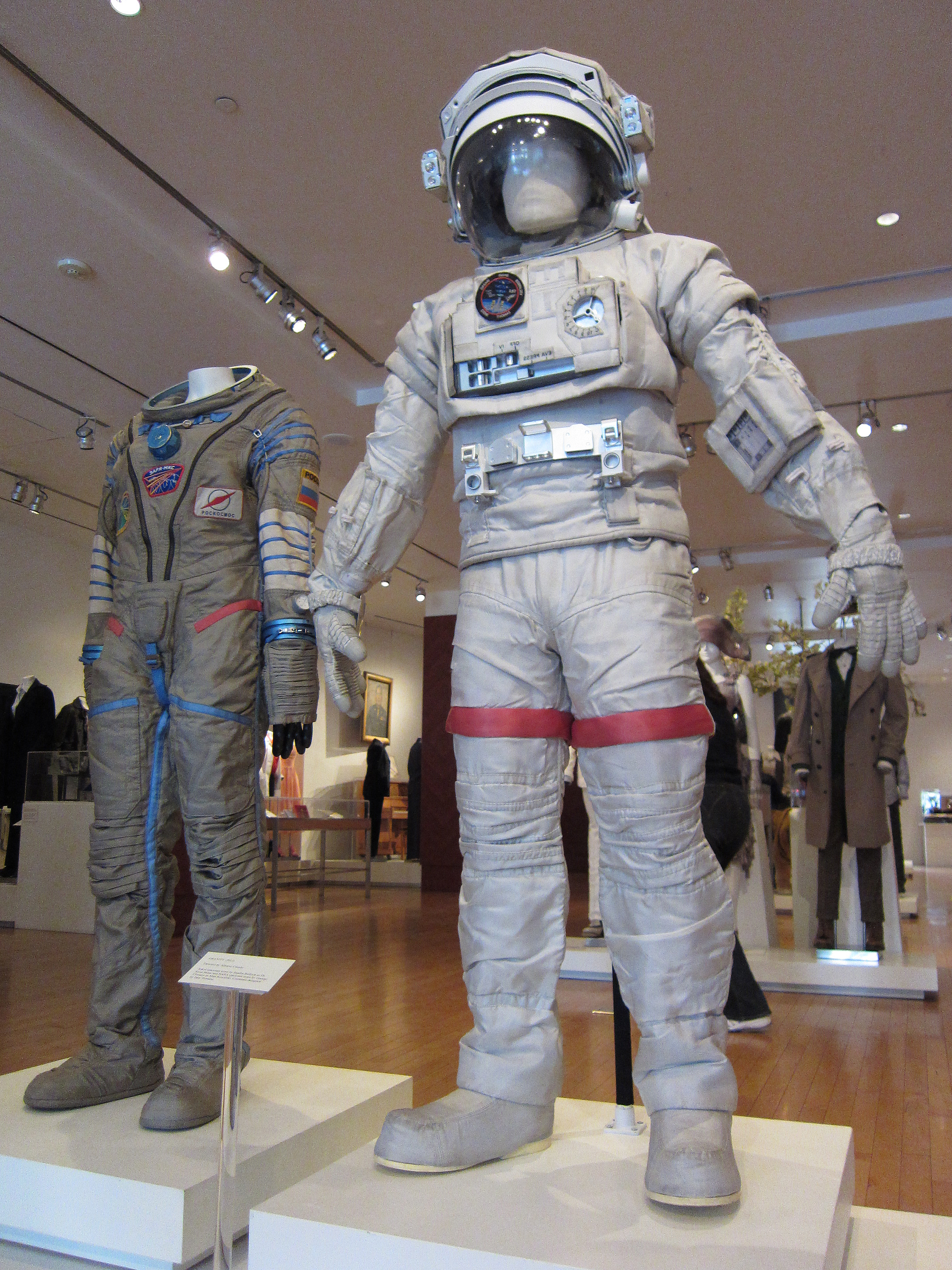 “ Sokol spacesuit worn by Sandra Bullock as Dr. Ryan Stone and NASA spacesuit worn by George Clooney as Matt Kowalski. Costumes designed by Jany Temime. ” Spacesuits from Gravity displayed at Warner Bros. Studios, Burbank, California, USA.